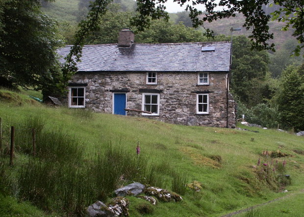 Bron-y-aur. Bron-y-aur Cottage near Machynlleth, Wales. I was out on pilgrimage with my wife to visit a part of Led Zeppelin's history... Māori: Ko Bron-y-aur, tētahi whare kei tata i Machynlleth i Wēra.